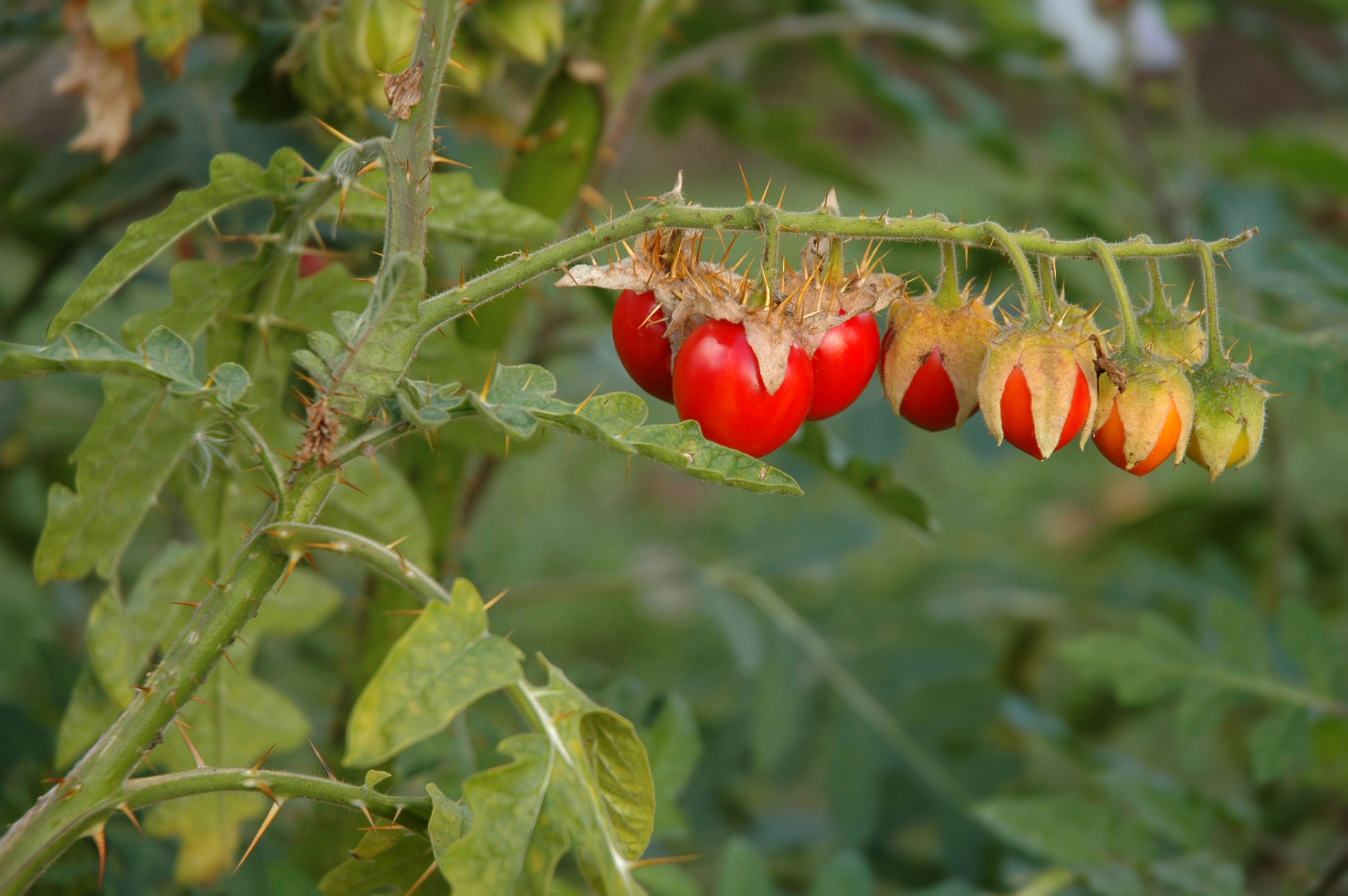 Solanum heterodoxum Dunal in Jardin des plantes in Paris. Other pictures of the same plant